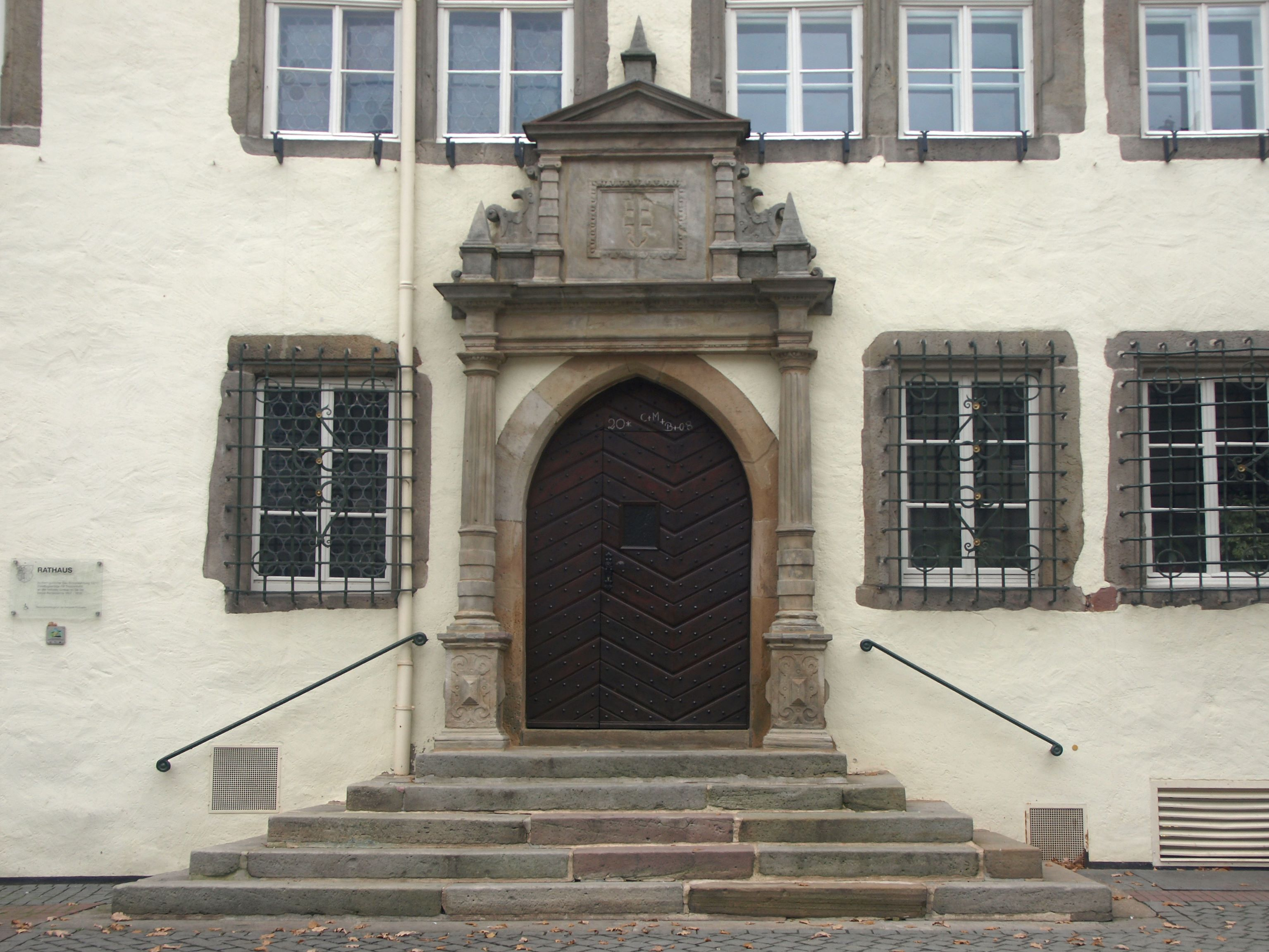 Portal with perron of town hall in Bad Hersfeld